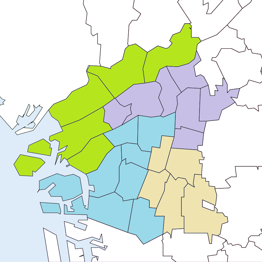 New special district plan launched for November 2020 referendum. The green color is Yodogawa district (Includes Yodogawa, Higashiyodogawa, Nishiyodogawa, Konohana and Minato); the purple is the district of Kita (includes Kita, Fukushima, Miyakojima, Asahi, Jôtô, Tsurumi and Higashinari); blue is the district of Chûô (includes Chûô, Nishi, Naniwa, Nishinari, Taishô, Suminoe and Sumiyoshi) and yellow is the district of Tennôji (includes Tennôji, Ikuno, Hirano, Abeno and Higashisumiyoshi).